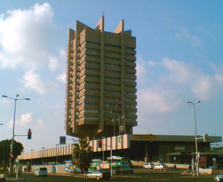 Egged_building, Haifa, Israel. Picture taken by David Shay.